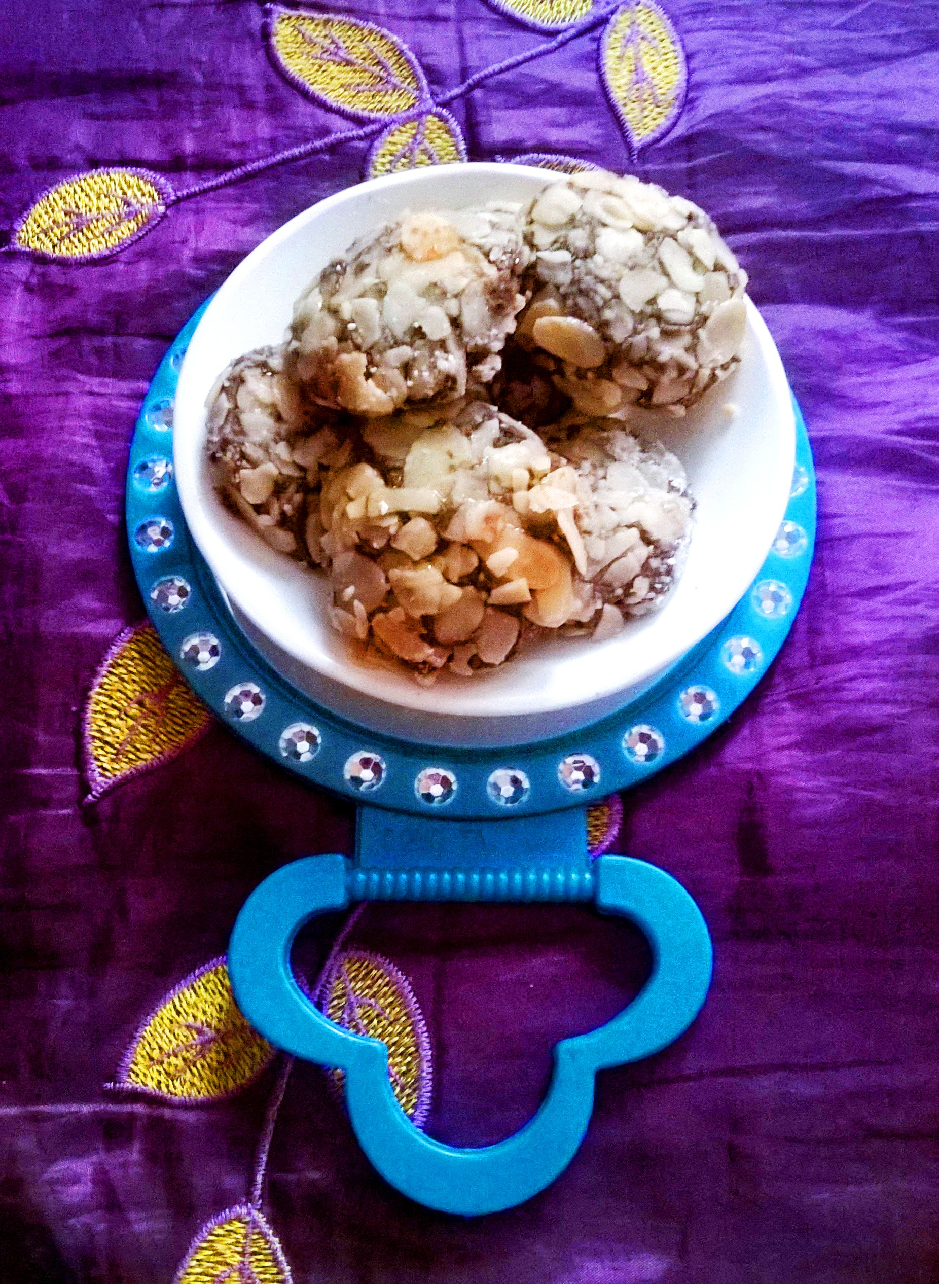 Ghraiba with slivered almonds_morocco